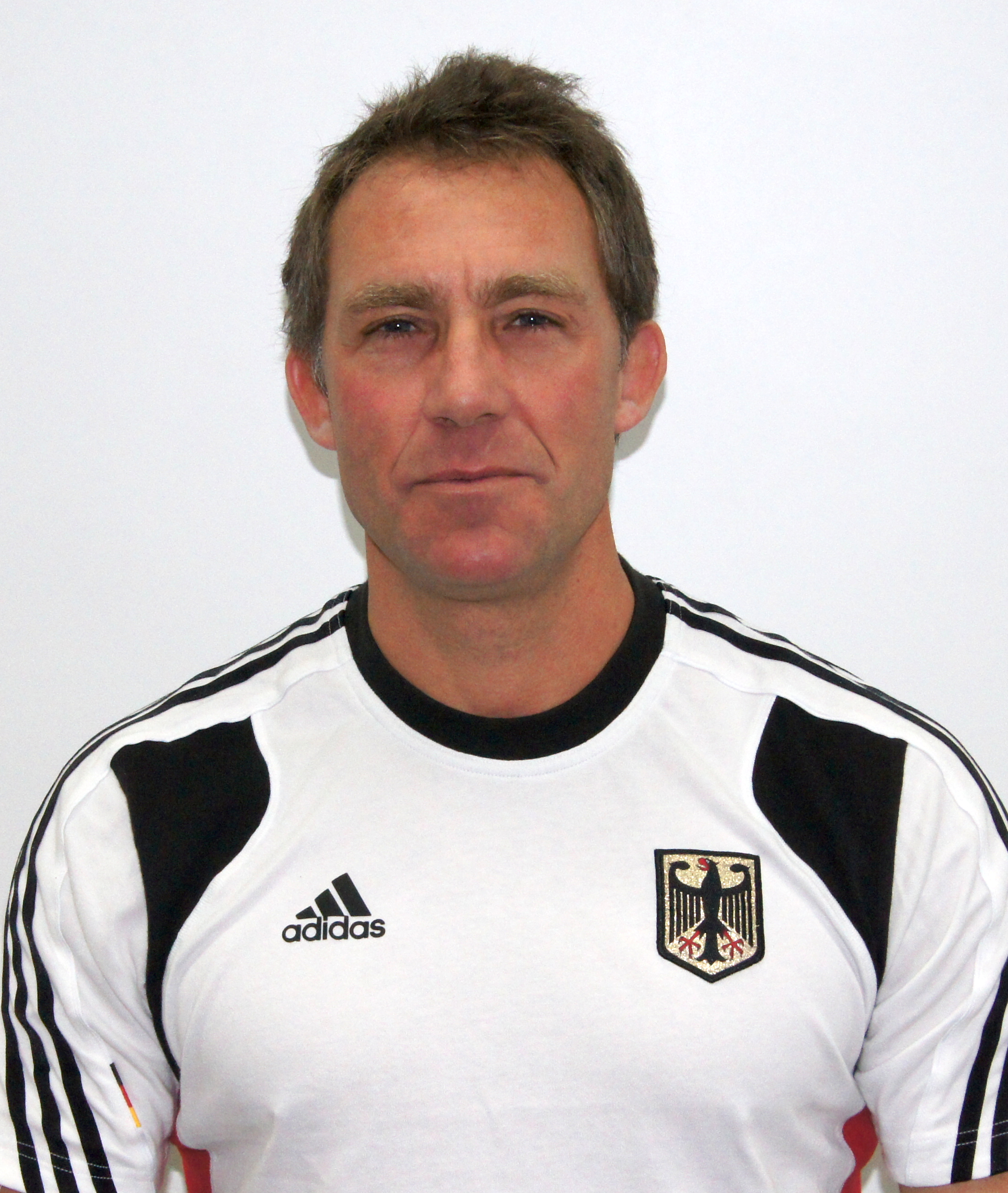 Headcoach of German Wildwater Canoe Team